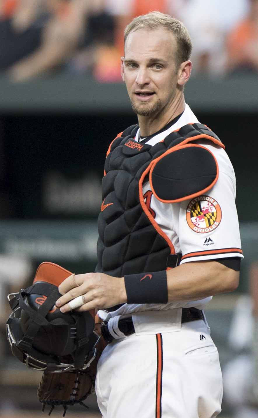 Rangers at Orioles 7/19/17